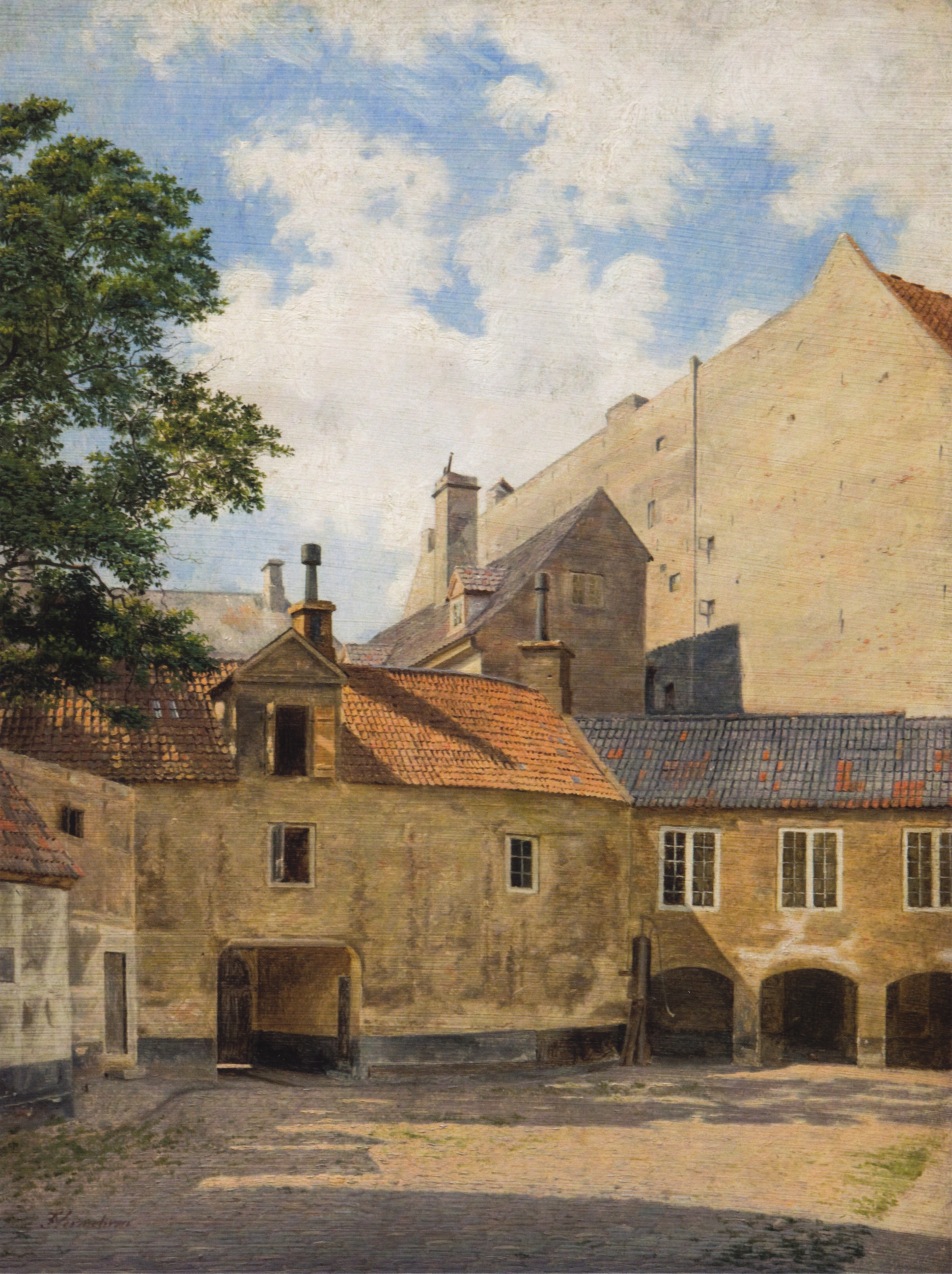 An early Vermehren painting from the time when he was a pupil at the Royal Academy, tutored by the painter Jørgen Roed. This painting was done close to the Roed family's dwellings at Kongens Nytorv.